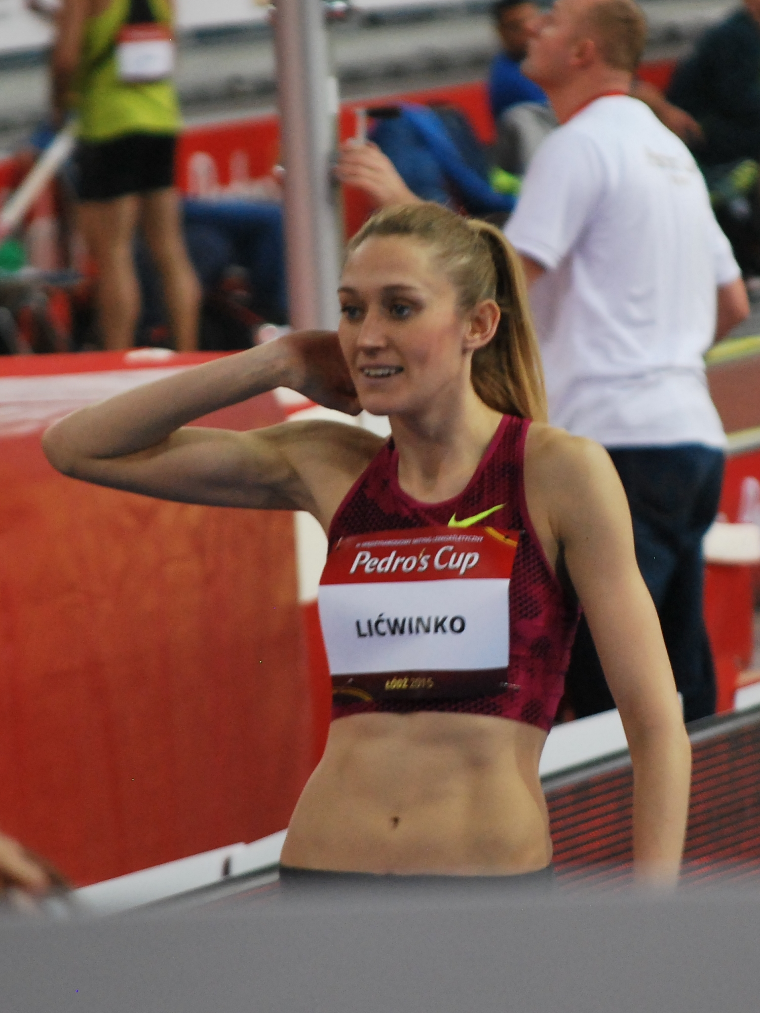 Pedros Cup 2015 Łódź, Kamila Lićwinko, high jumper from Poland